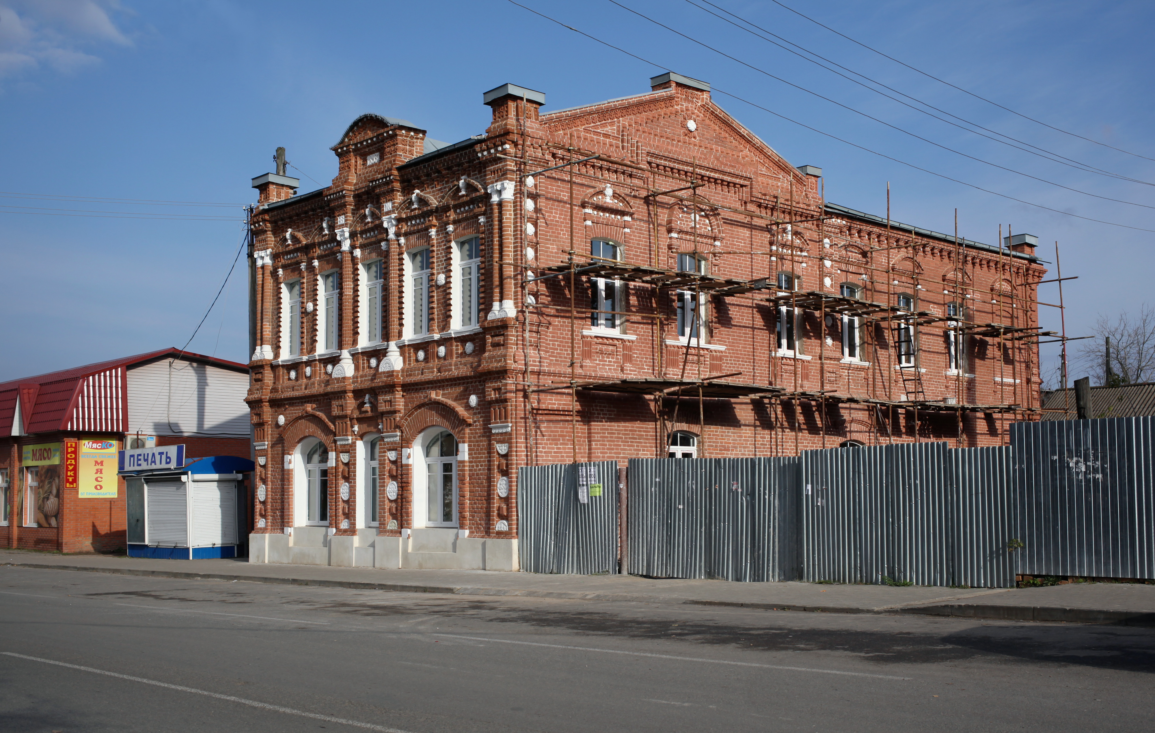 Zhuravlyov House in Medyn